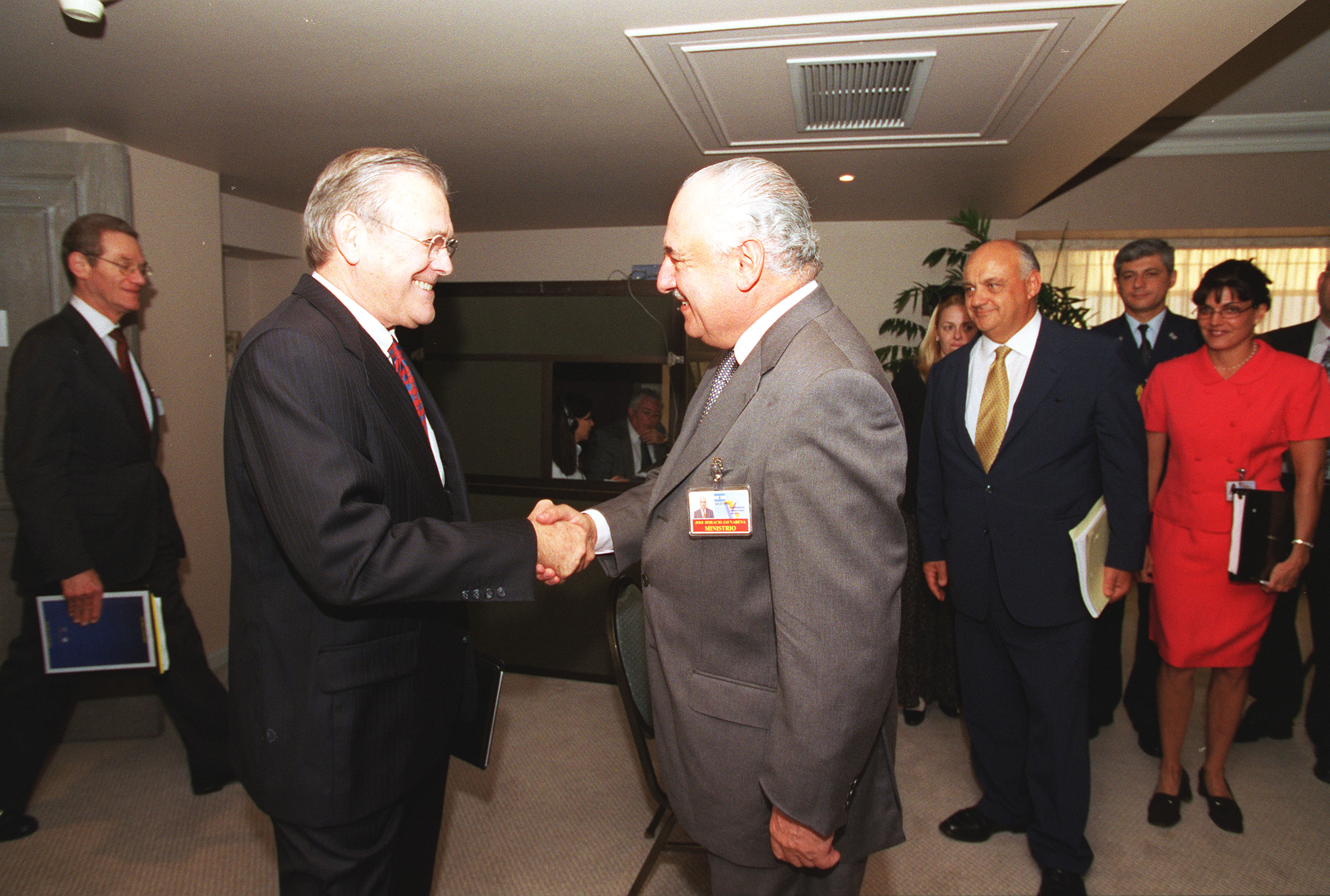 Secretary of Defense Donald H. Rumsfeld greets Argentina's Minister of Defense Jose Horacio Jaunarena as they arrive for their bilateral meeting in Santiago, Chile, on Nov.18, 2002. The defense leaders are in Santiago, Chile attending the Defense Ministerial of the Americas.